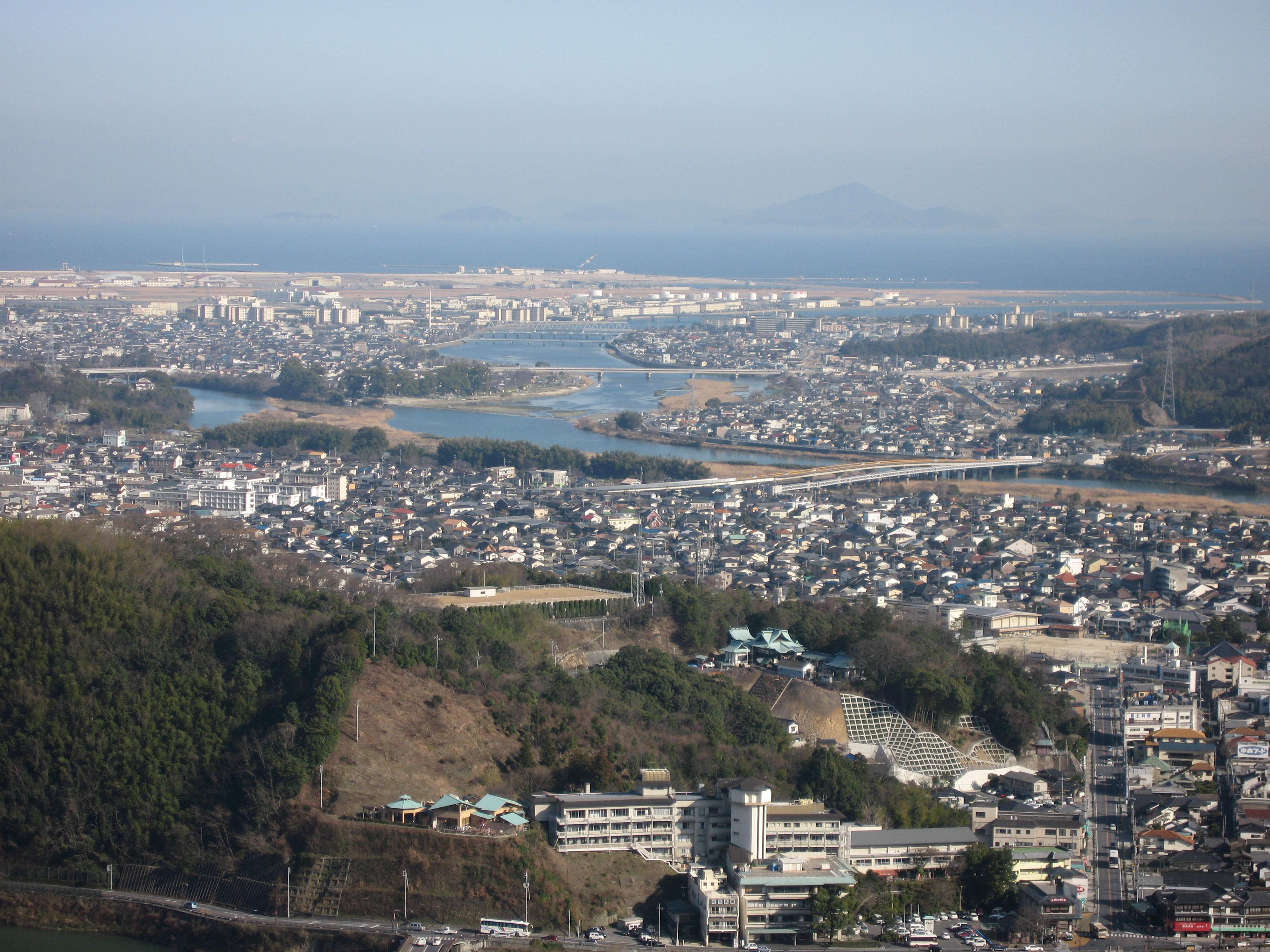 Iwakuni City view from Iwakuni Castle